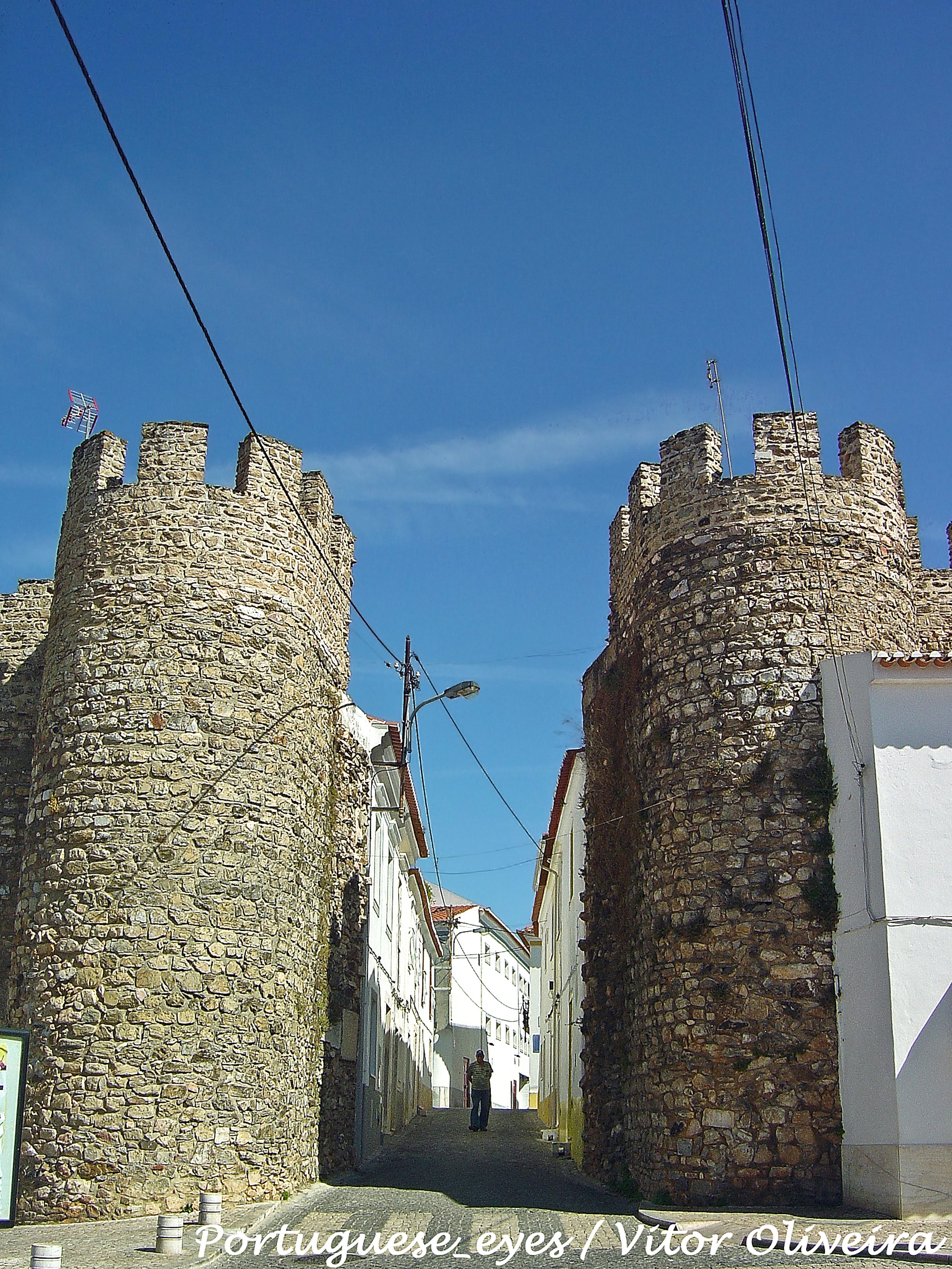 See where this picture was taken. [?]